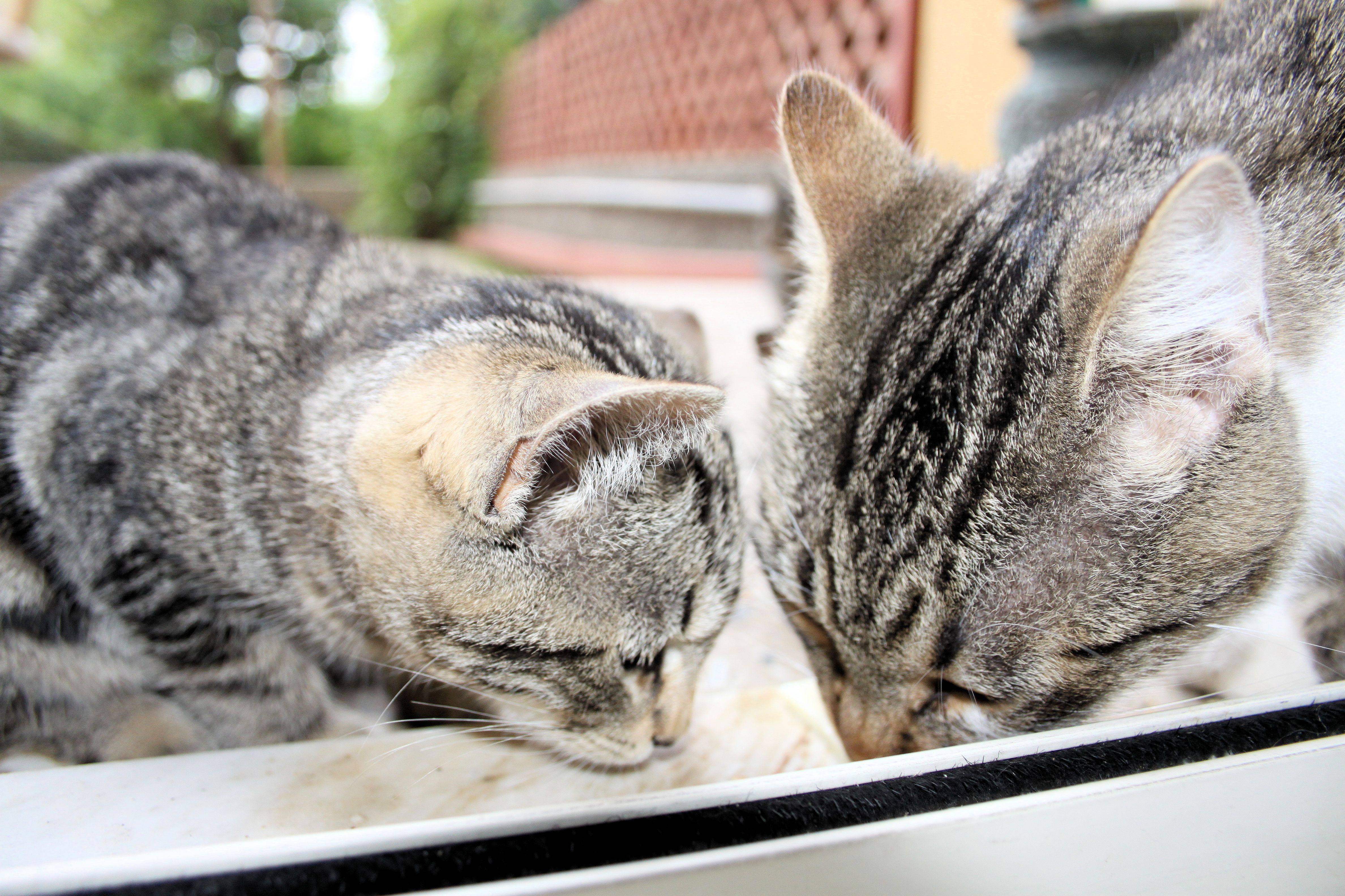 Soriani